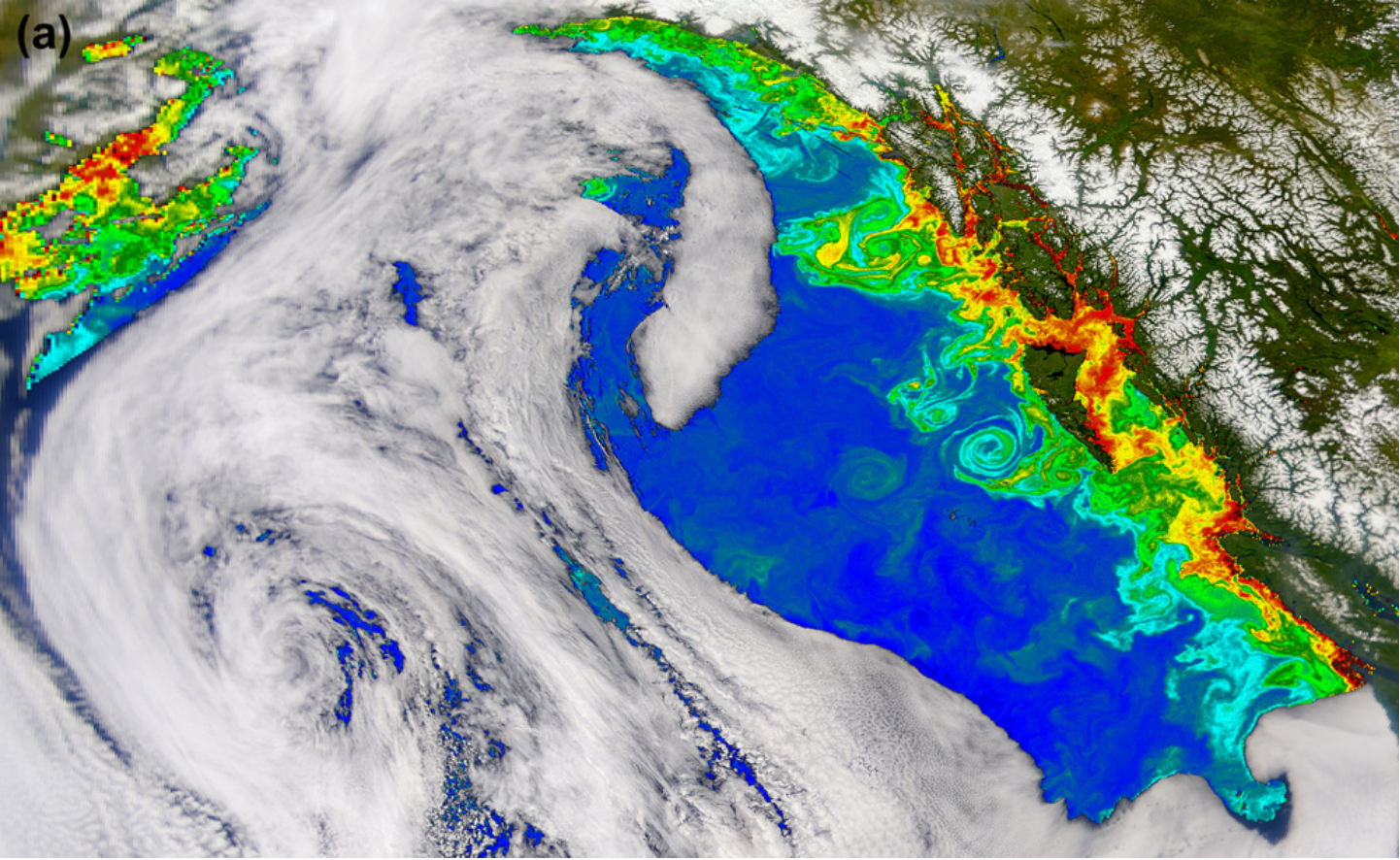 Ocean color from the SeaWIFS satellite, showing an anticyclonic Haida Eddy in the Alaska Current on June 13, 2002